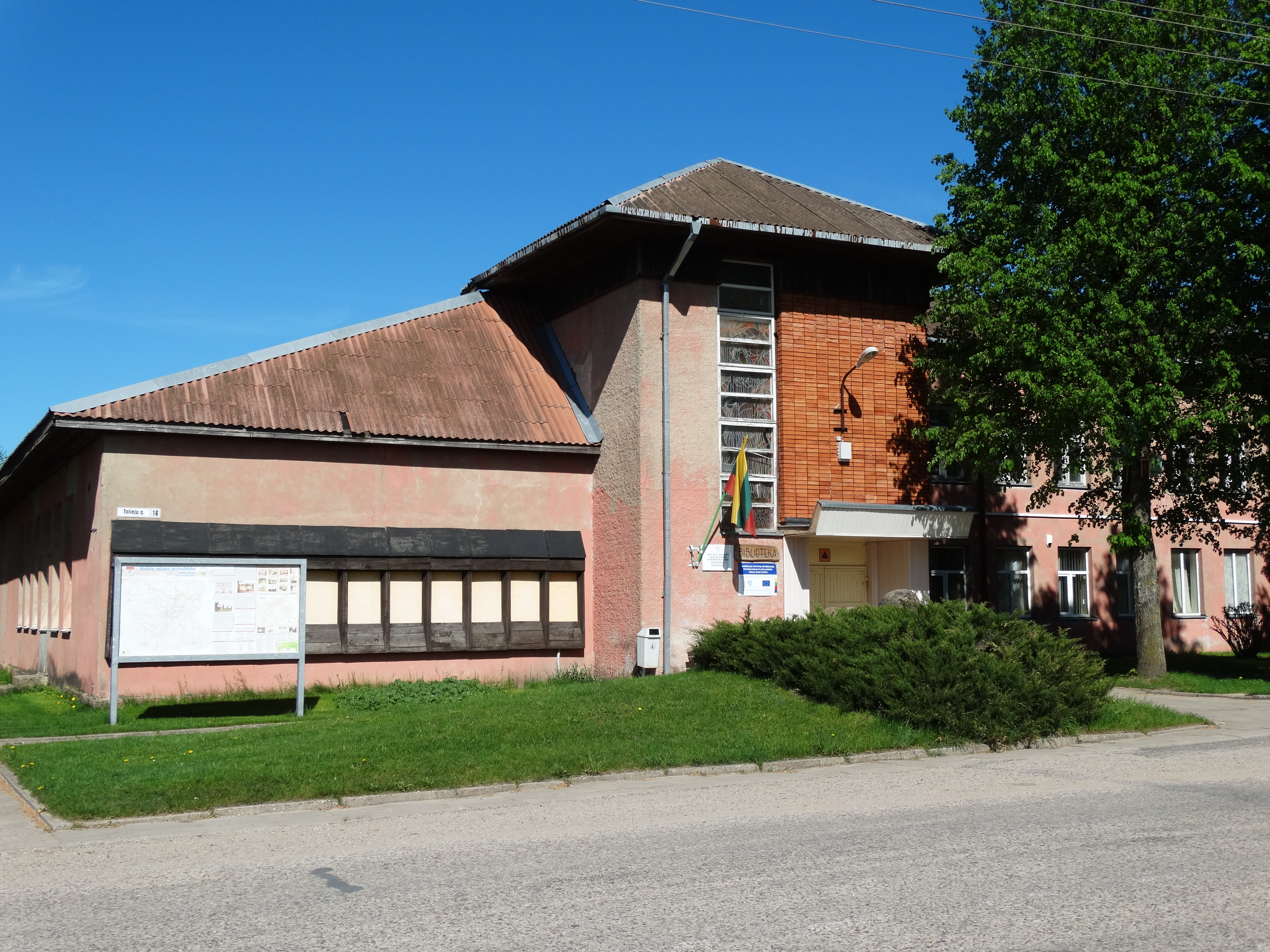 Eldership, Toliejai, Molėtai District, Lithuania